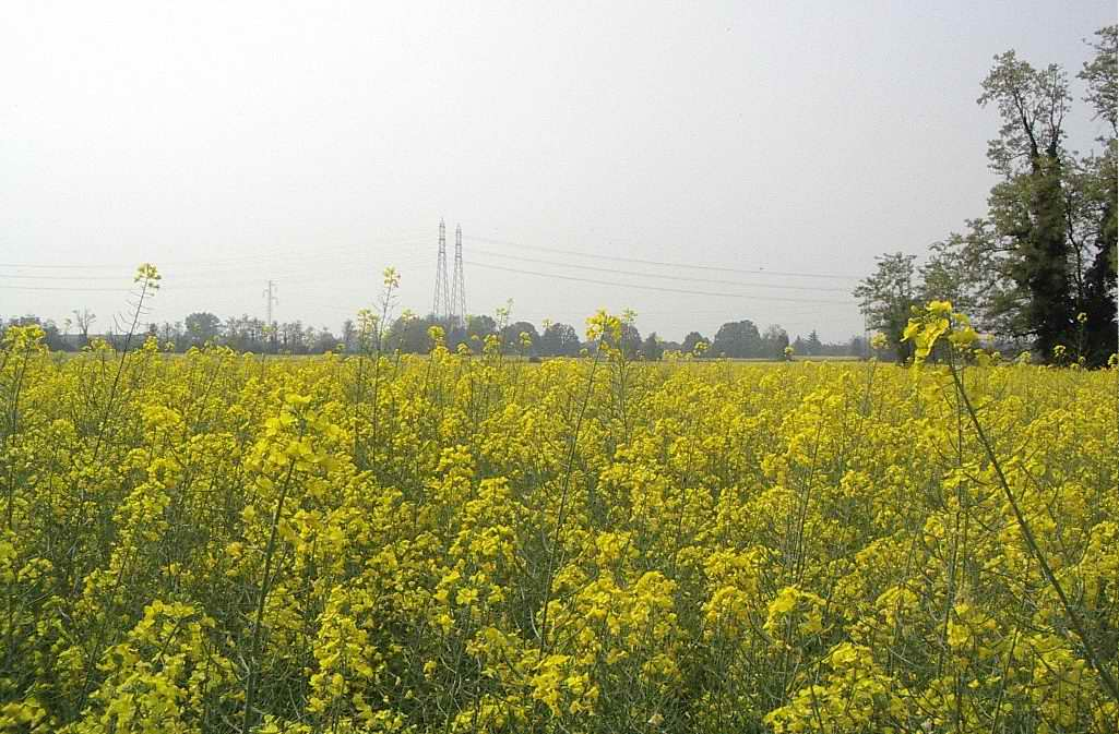 a field of rapeseed in the village of Dresano, Italy